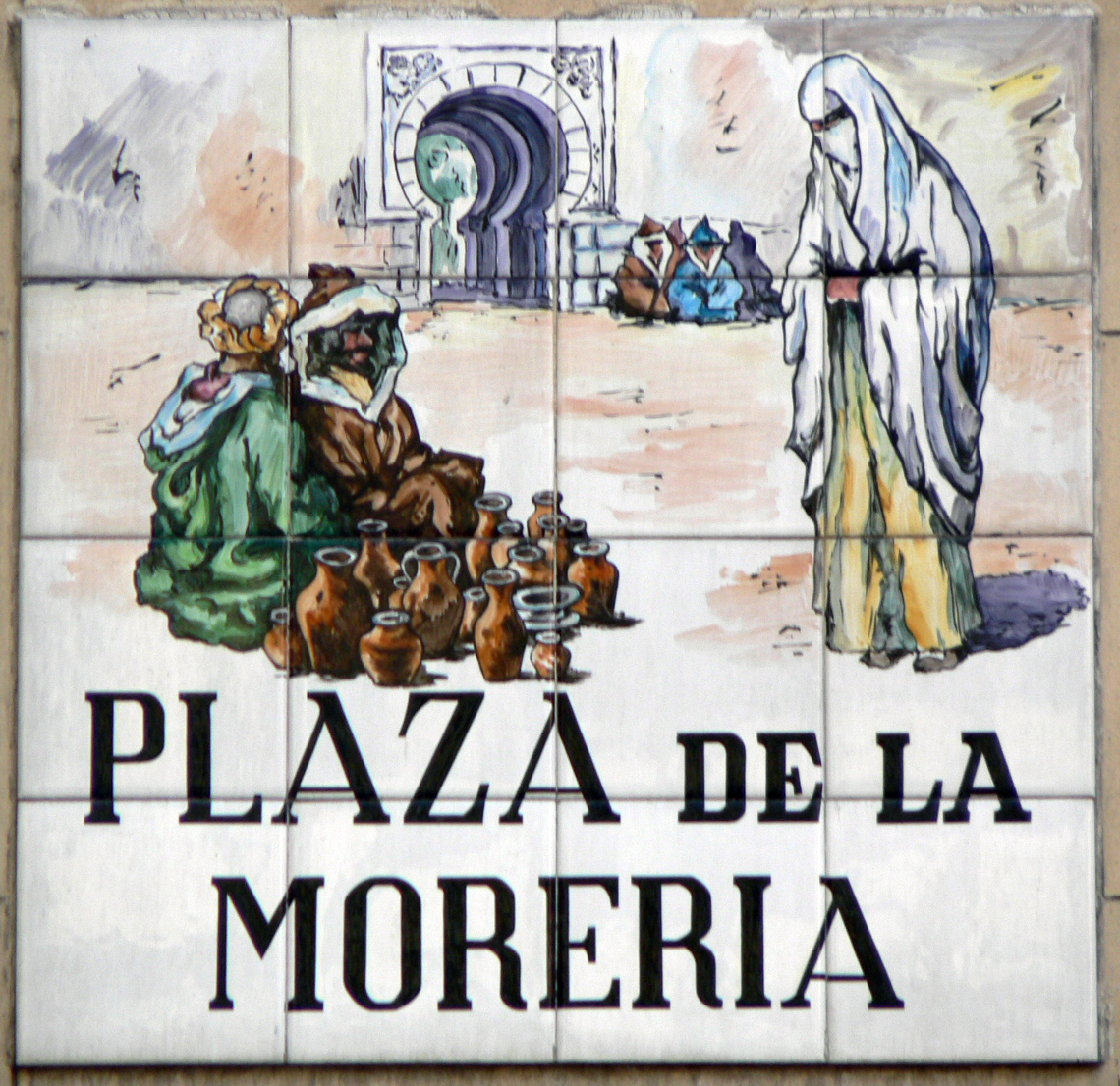 Sign of Plaza de la Morería (square, Centro district) in Madrid (Spain).